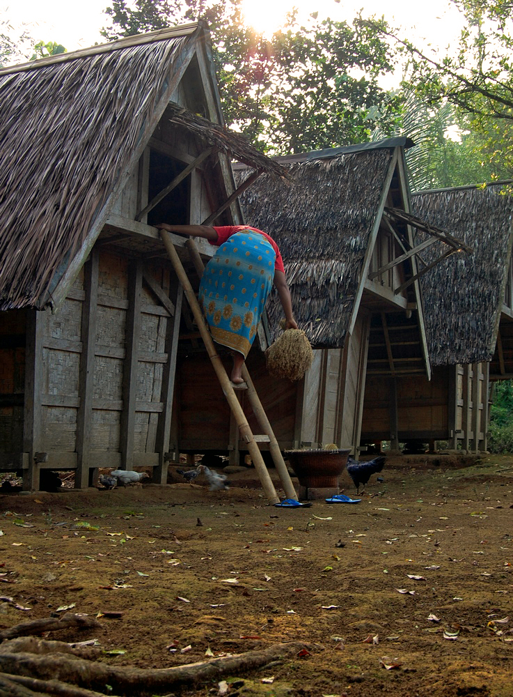 Take down a bundle of rice from a leuit, traditional Sundanese rice barn. Sirnarasa, Kasepuhan village near Palabuhanratu, Sukabumi, West Java